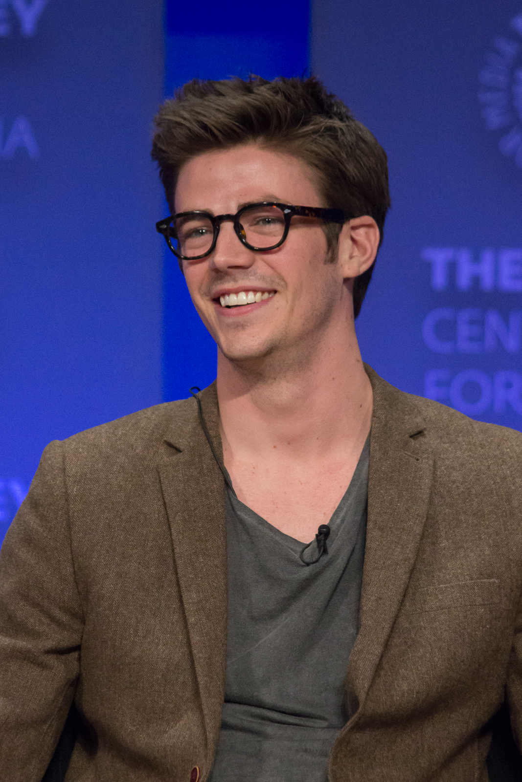 Grant Gustin at the PaleyFest 2015 presentation for "The Flash"